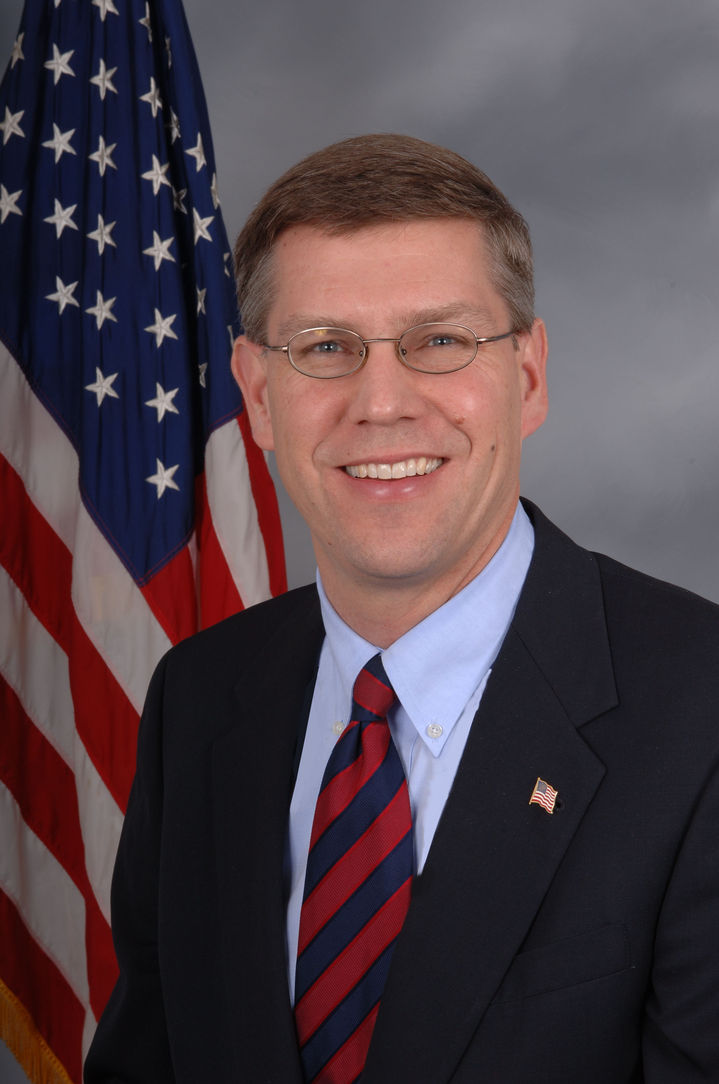 Taken in the US House of Representatives and is his current Member photo. Provided by the US Government.